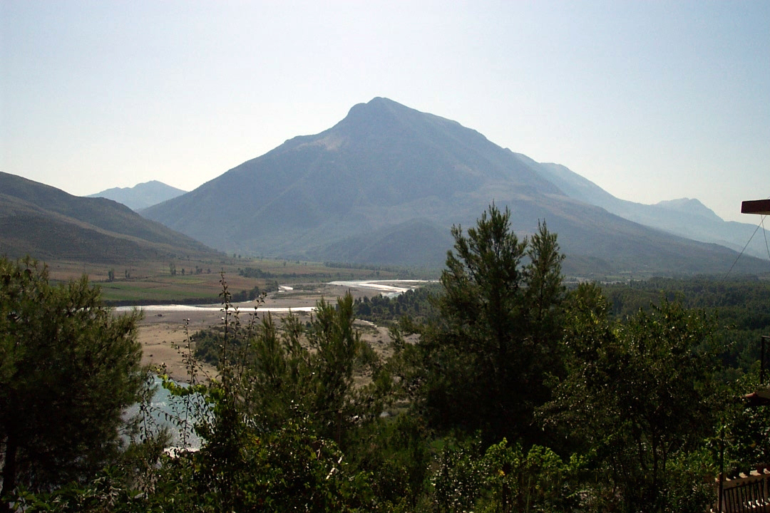 Landscape in Tepelenë county, Albania.